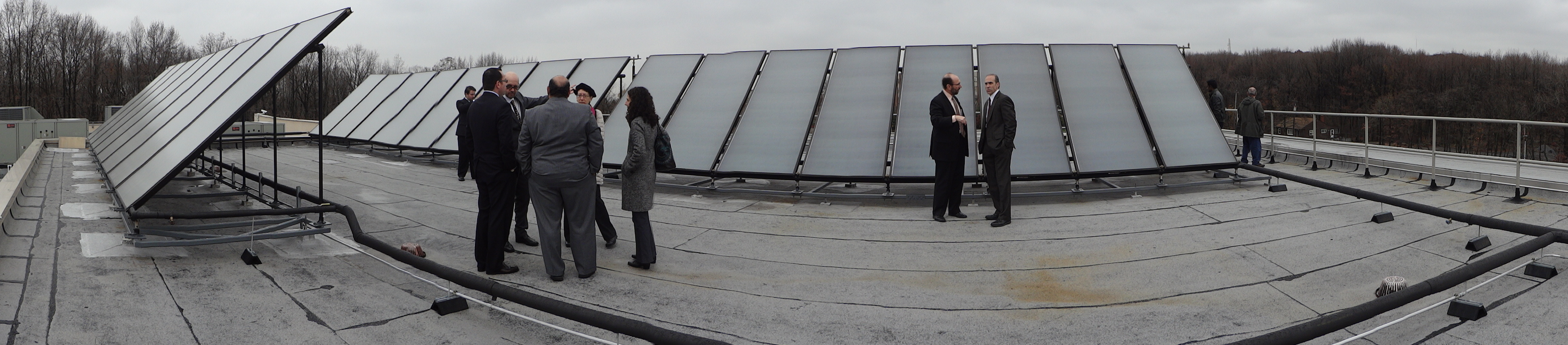 The 24-panel Solar Hot Water system now adorning the roof of the Joan and Alan Bernikow Jewish Community Center on Staten Island, NY at 1466 Manor Road.